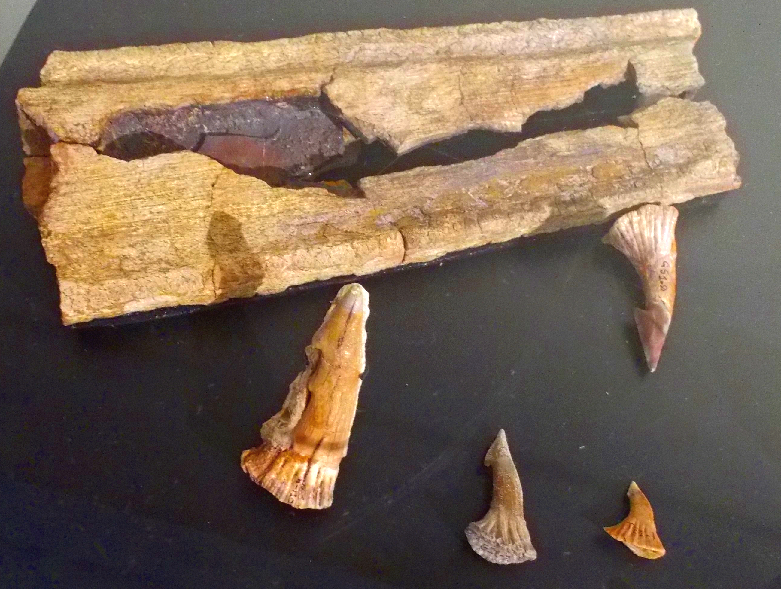 fragment of rostrum and some teeth of Onchopristis